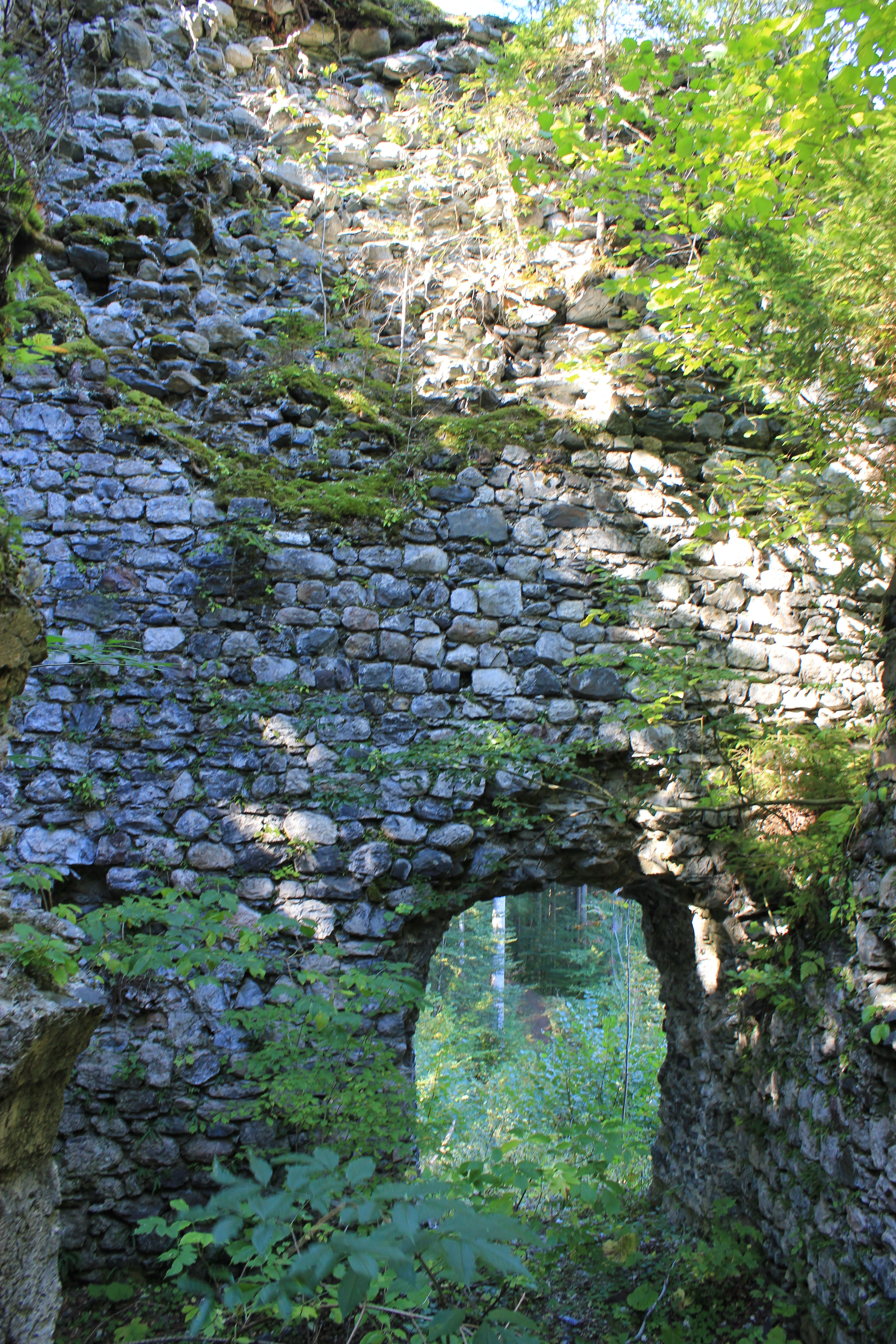 Ruins of Weidenburg castle in the community of Kötschach-Mauthen